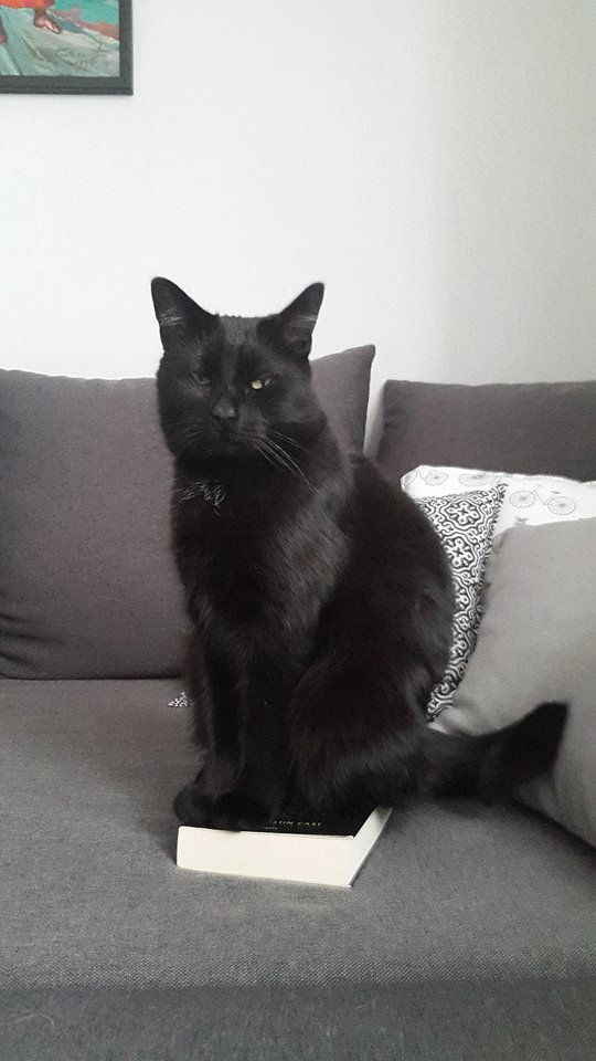 Black cat watching the surroundings from an elevated position